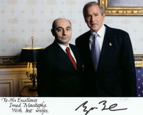 U.S. President George W. Bush with Syrian Ambassador Imad Moustapha.